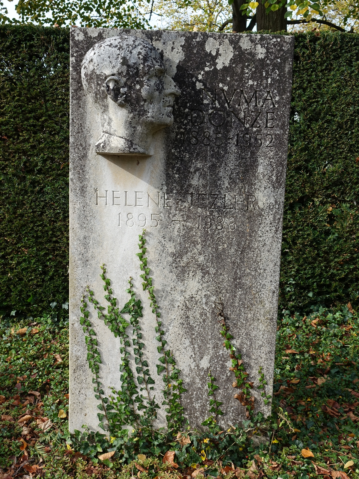 Numa Donzé (1885-1952) Künstler, Maler, Grab auf dem Friedhof am Hörnli, Schweiz